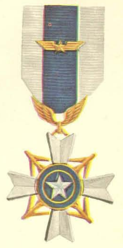 Vietnam Air Gallantry Cross Bronze Wing